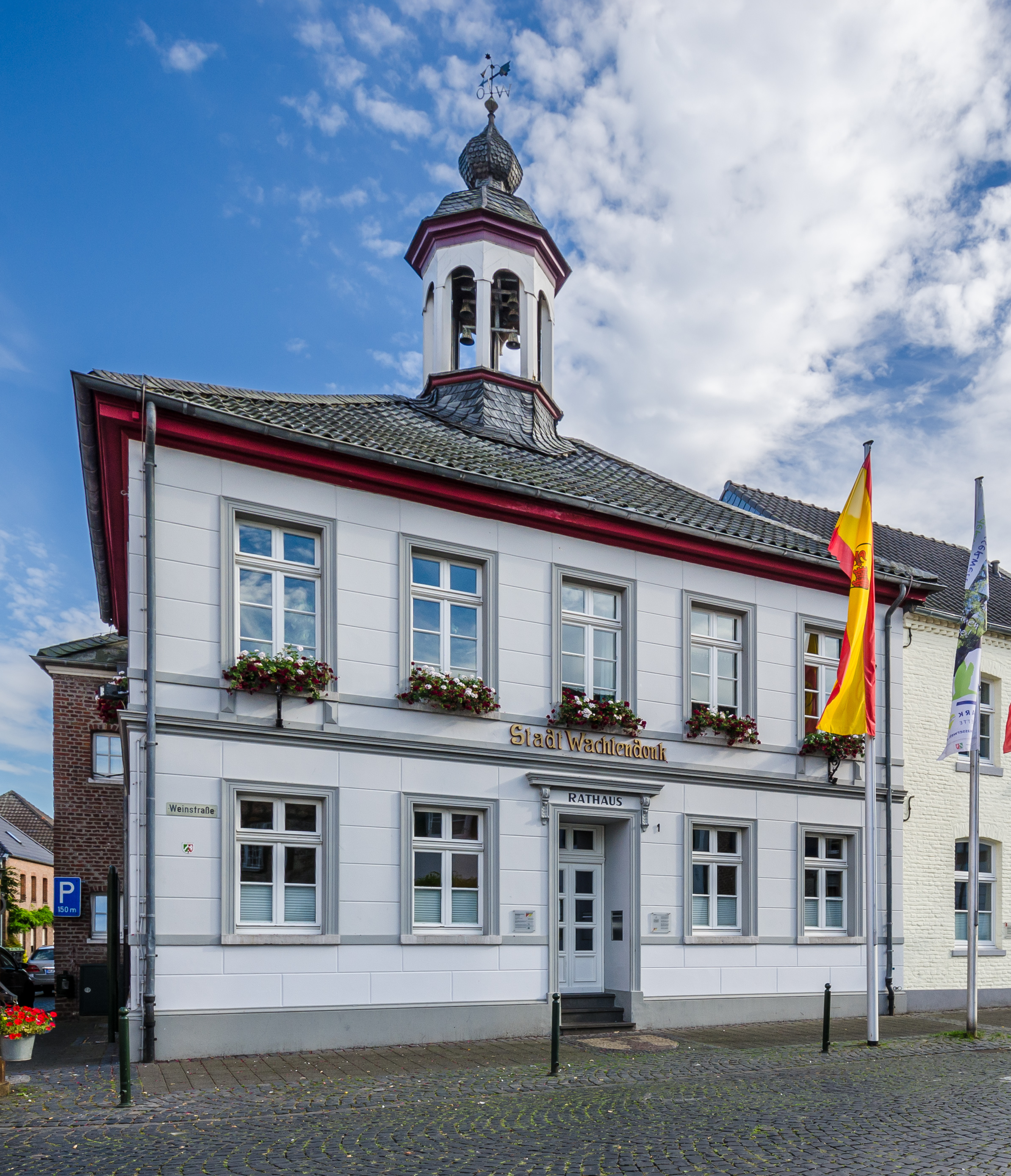 town hall of Wachtendonk This image shows a heritage building in Germany, located in the North Rhine-Westphalian city Wachtendonk (no. 2).